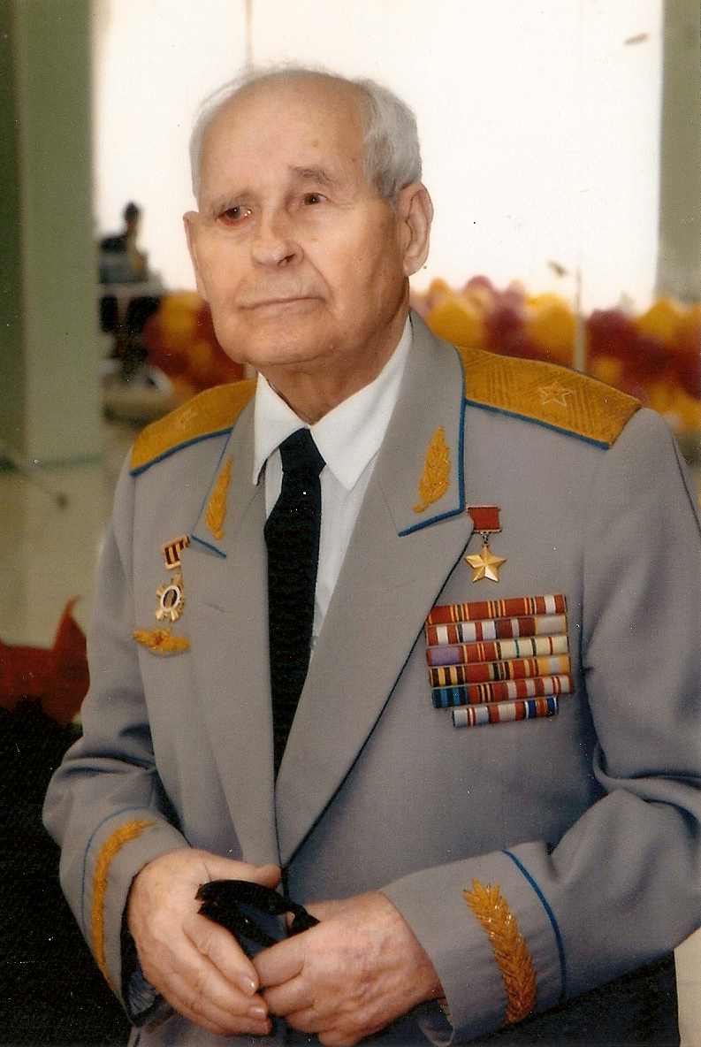 Krasnorar